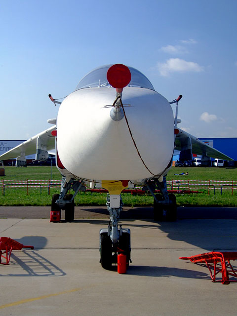 MAKS Airshow-2007. Su-24MK